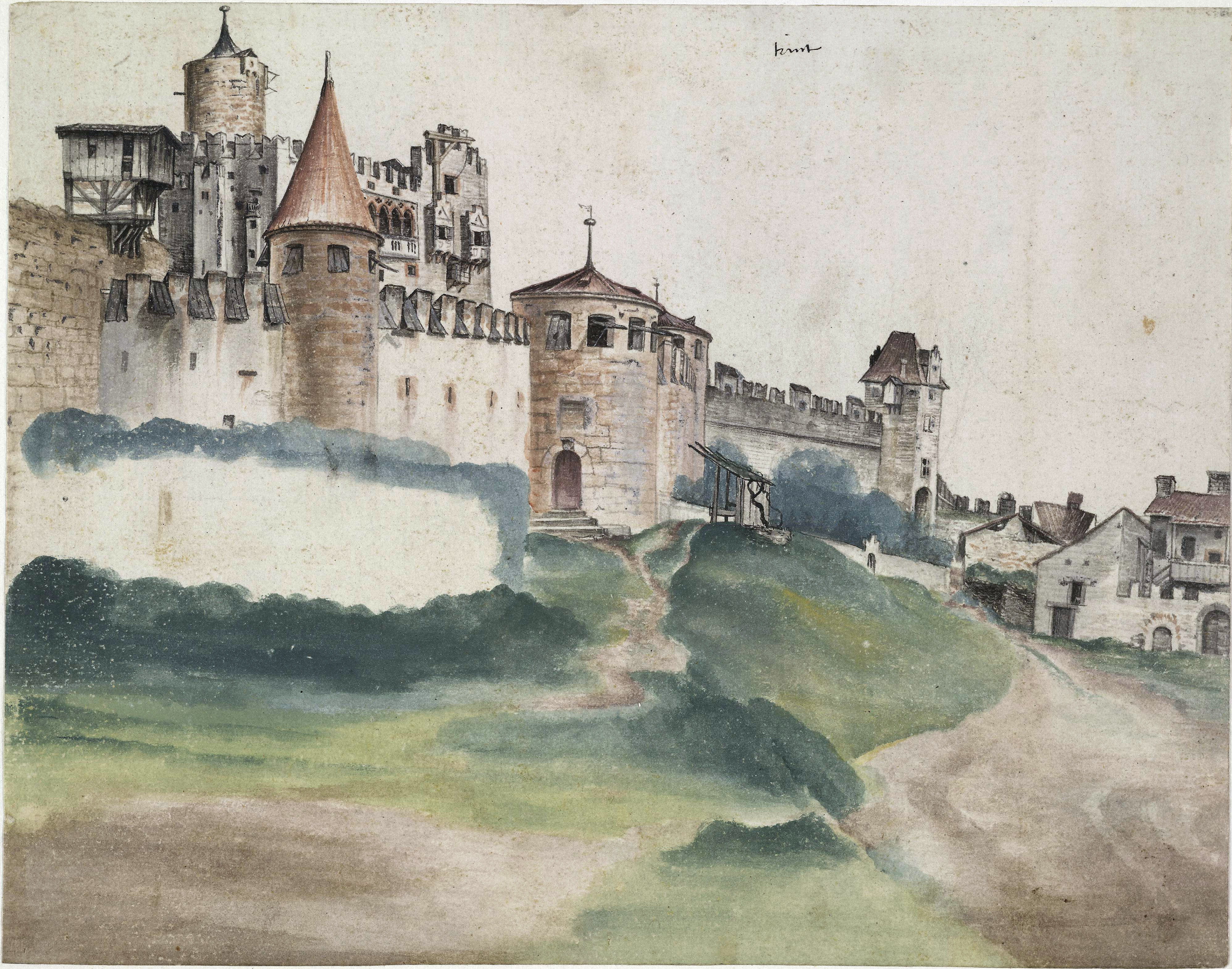 Trente castel (1495)